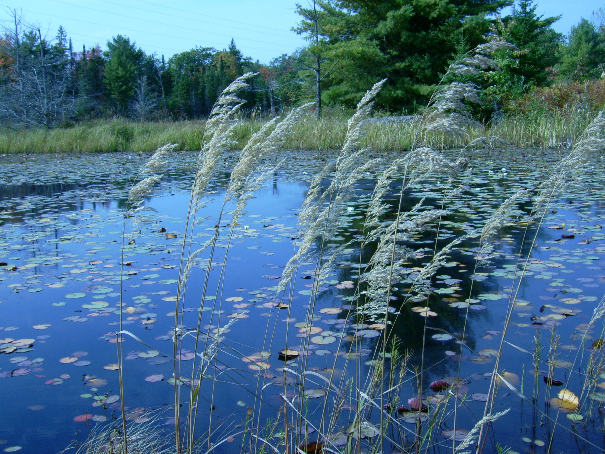 Canada bluejoint (Calamagrostis canadensis), Unorganized Algoma, Ontario